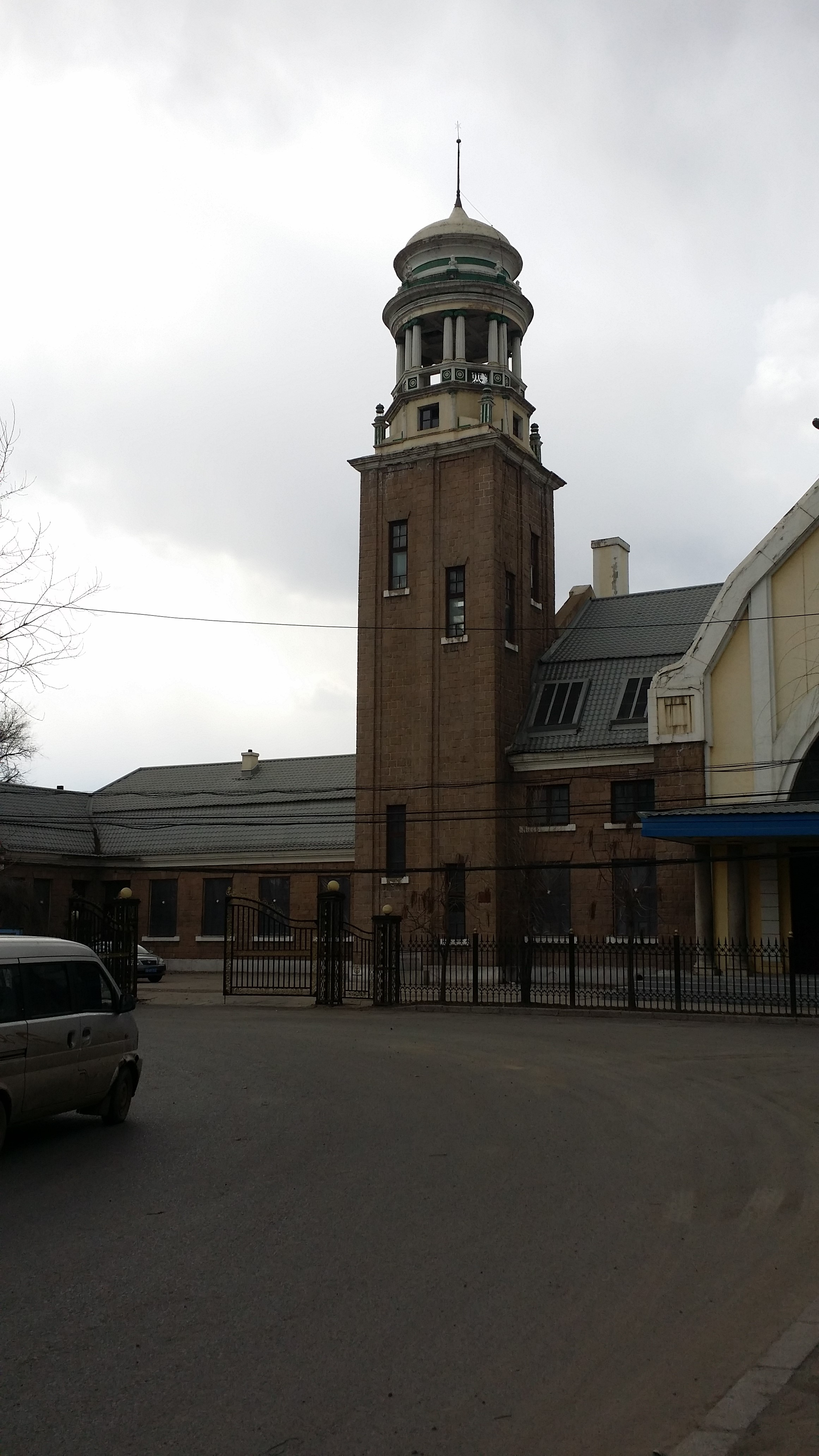 The tower of JilinXi Railway Station，2014-04-05